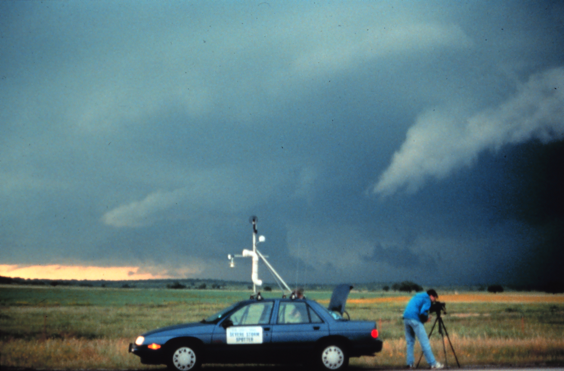 A member of NOAA's National Severe Storms Laboratory films a potentially tornadogenic storm in Graham, Texas during the first VORTEX project.